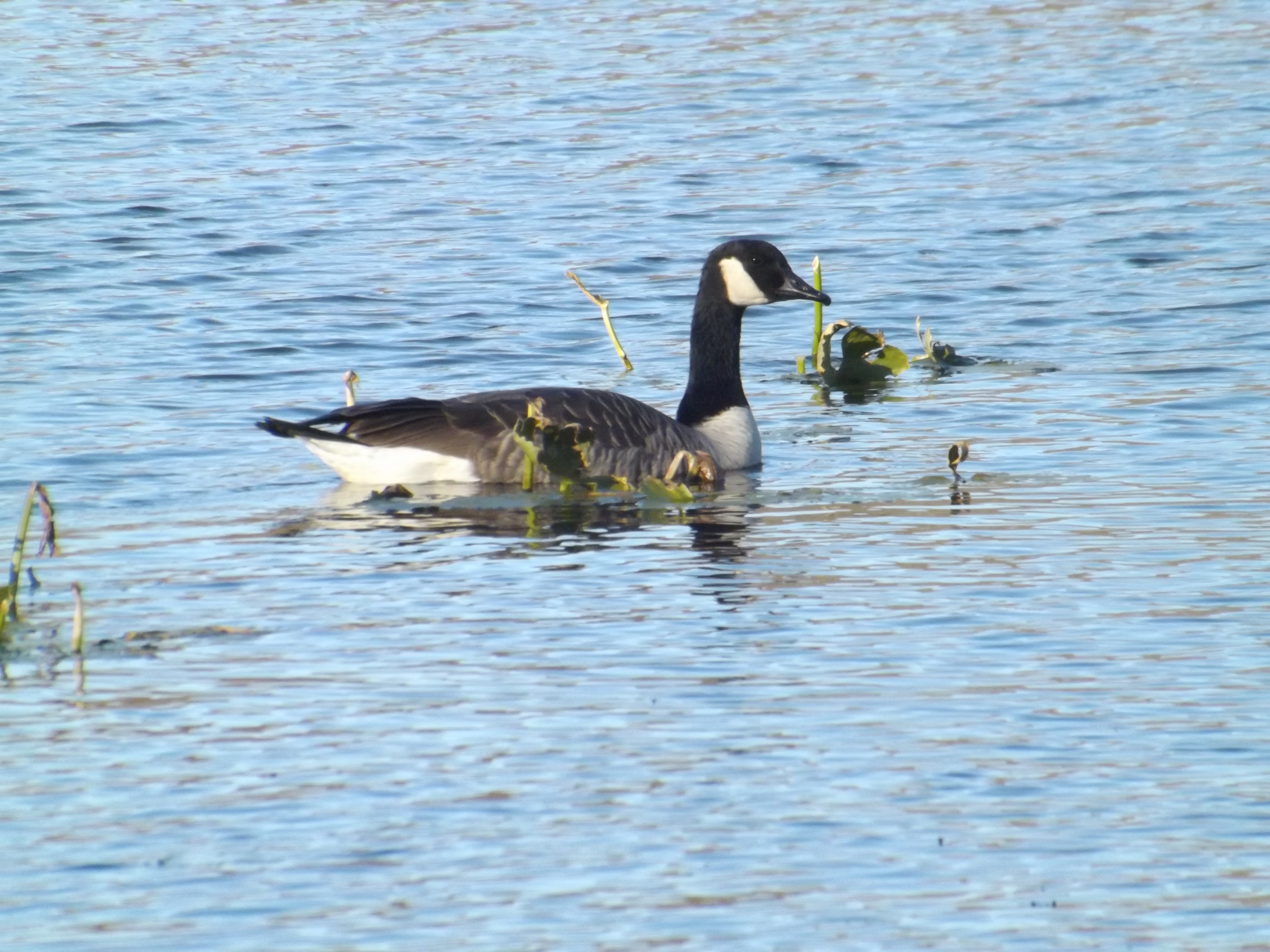 Personal photo of a goose paddling in Lake Towhee.